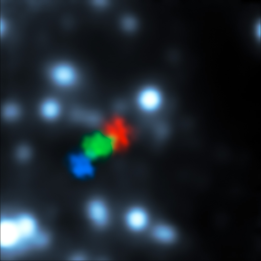 New observations from ESO’s Very Large Telescope show for the first time a gas cloud being ripped apart by the supermassive black hole at the centre of the galaxy. Shown here are VLT observations from 2006, 2010 and 2013, coloured blue, green and red respectively. Due to its distance, and the fact that we see the orbit at a steep angle as the cloud falls towards the black hole, only the position, not the shape, of the cloud can be discerned in this image. The stretching of the cloud is seen in observations of its velocity, which allow astronomers to work out where on its orbit the different parts of the cloud are now located.